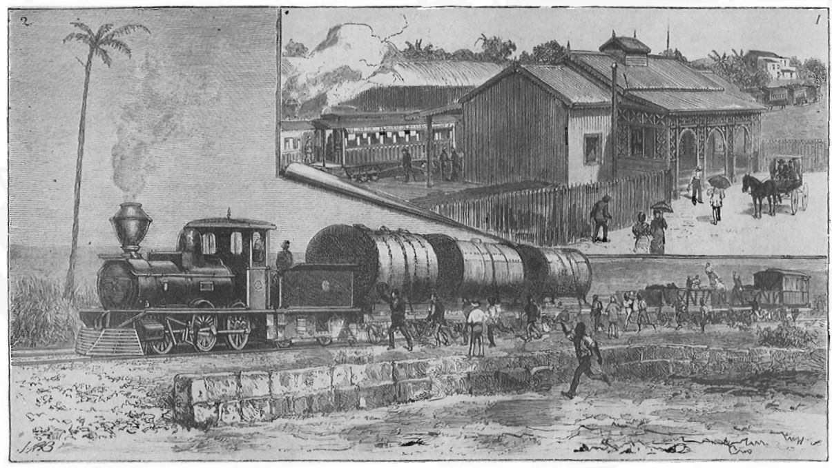 This engraving with the title 'The new railway at Barbadoes. British West Indies' appeared in 'The Graphic' on 18 February 1882. Photo courtesy CRHA Archives.